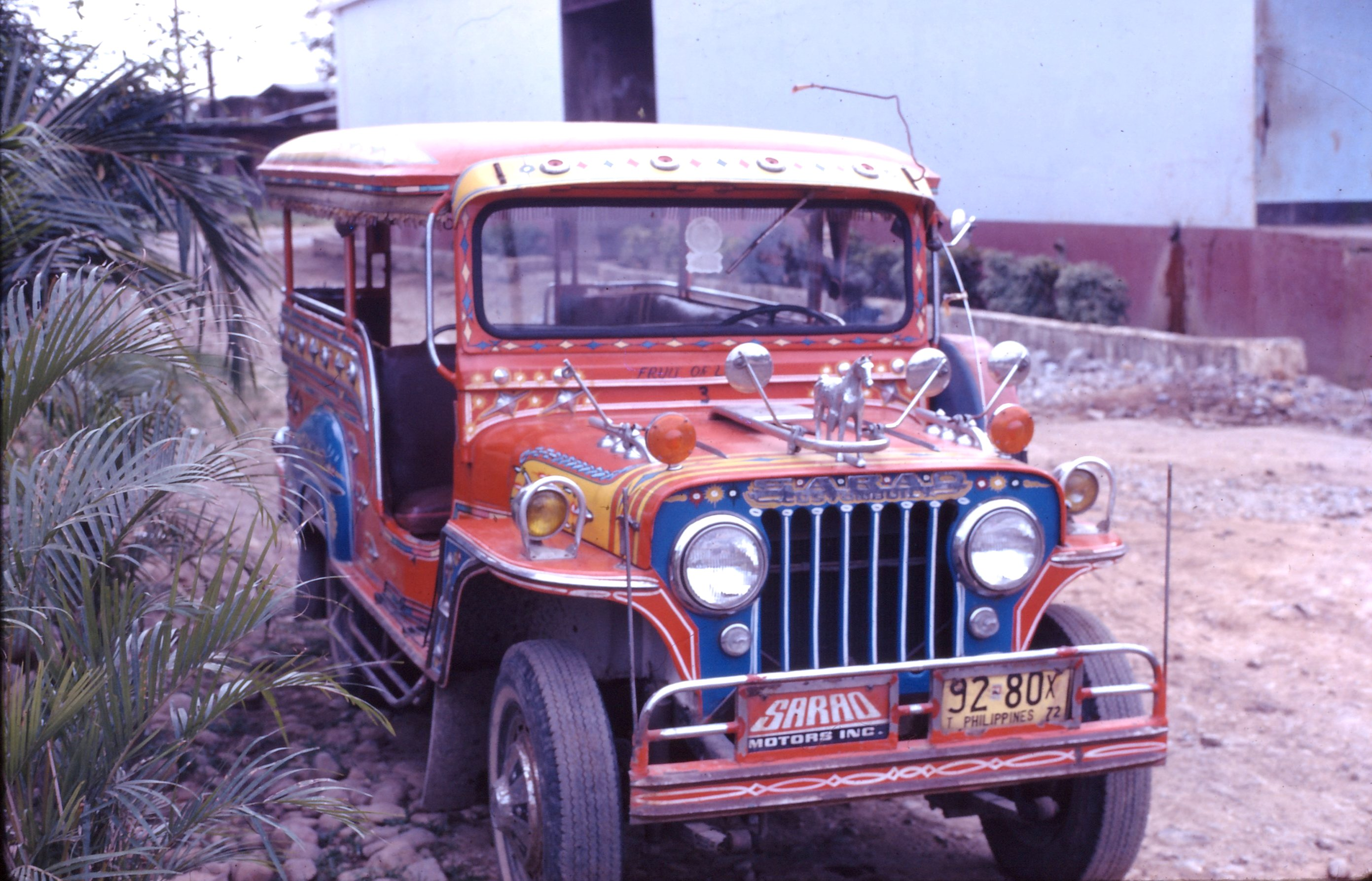 Jeepney in Olongopo City, Philippines.